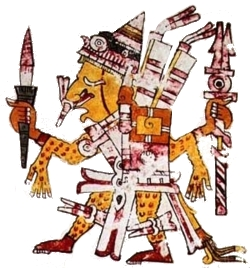 Originally published in the Codex Borgia, 15th century, author unknown.